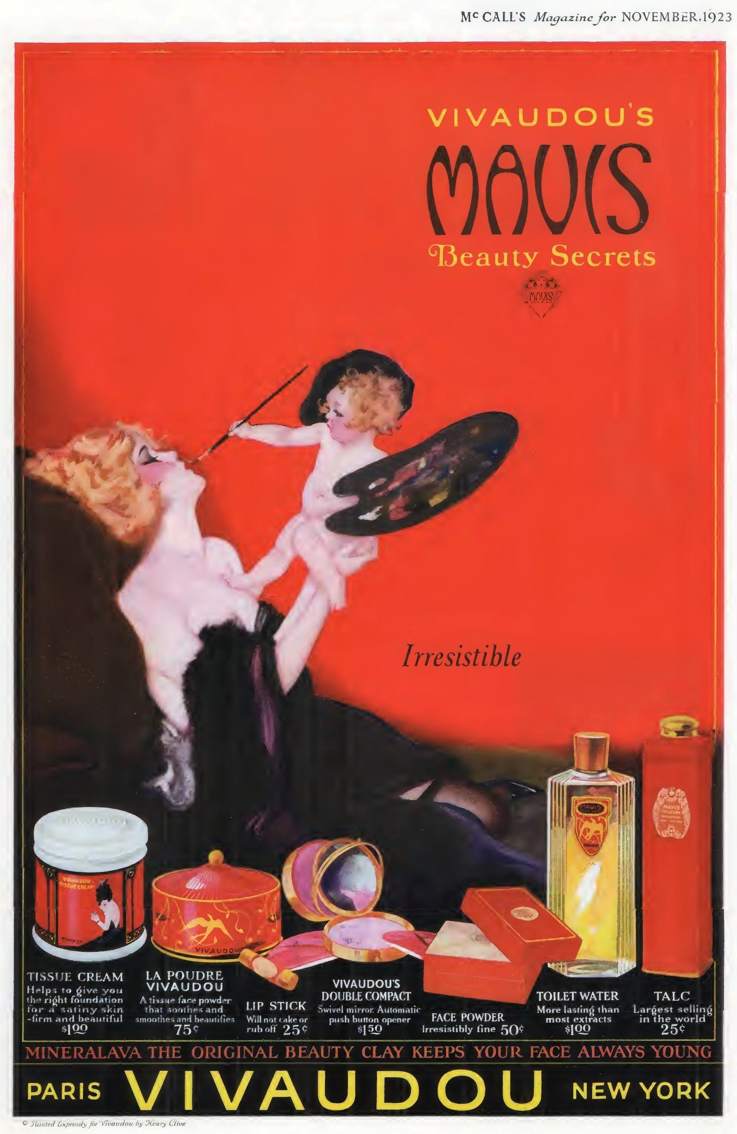 Vivaudou's Mavis Beauty Secrets, 1923